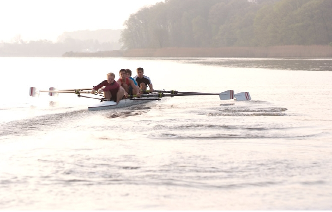 Varsity Four